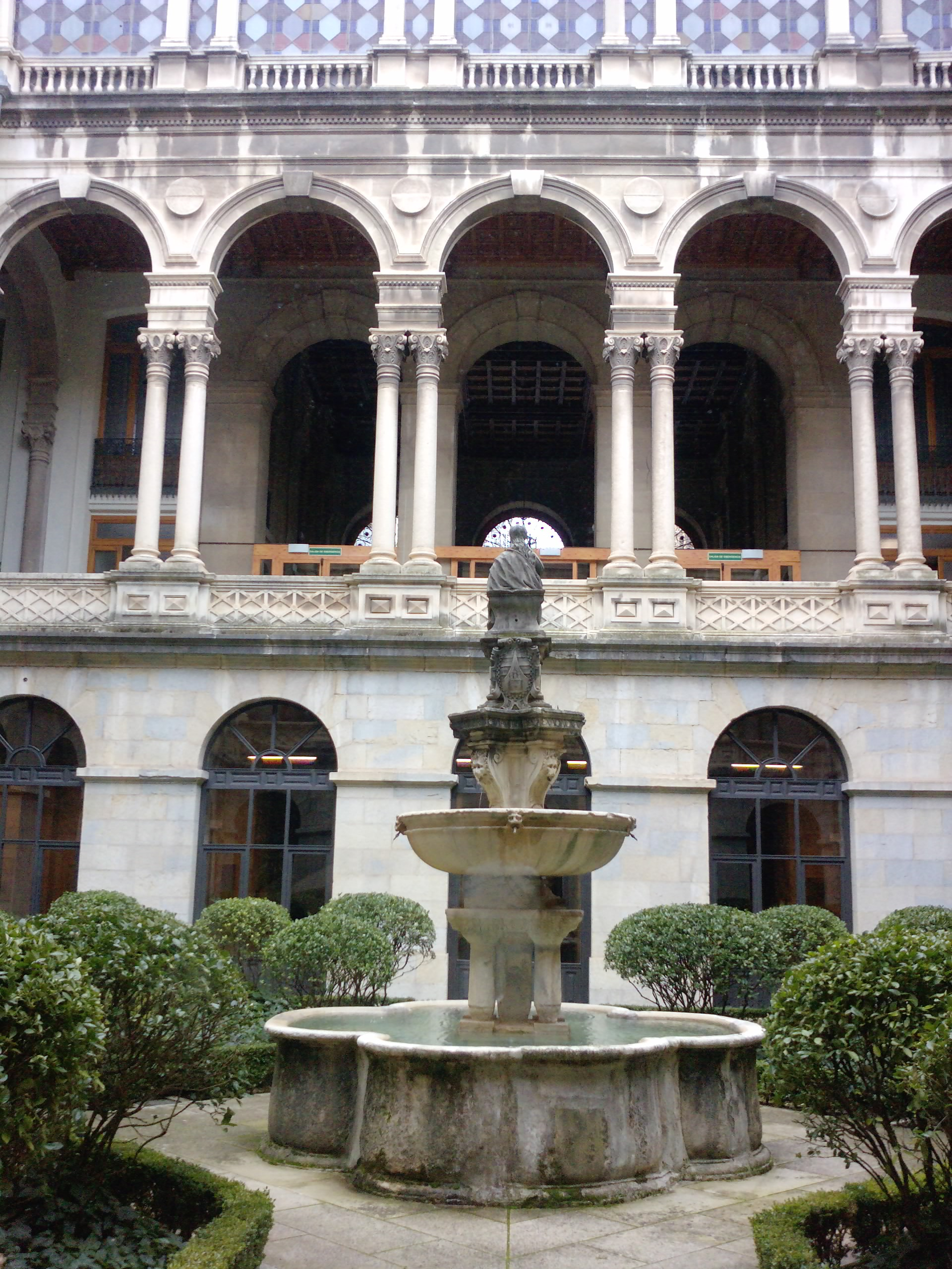 "Fountain of Mary Magdalene" in the cloister of the Convent of Santo Domingo de La Guardia de Jaén, La Guardia de Jaén (Spain). Currently located in the Palace Provincial of Jaén in Jaén (Spain). Work by Francisco del Castillo el Mozo.